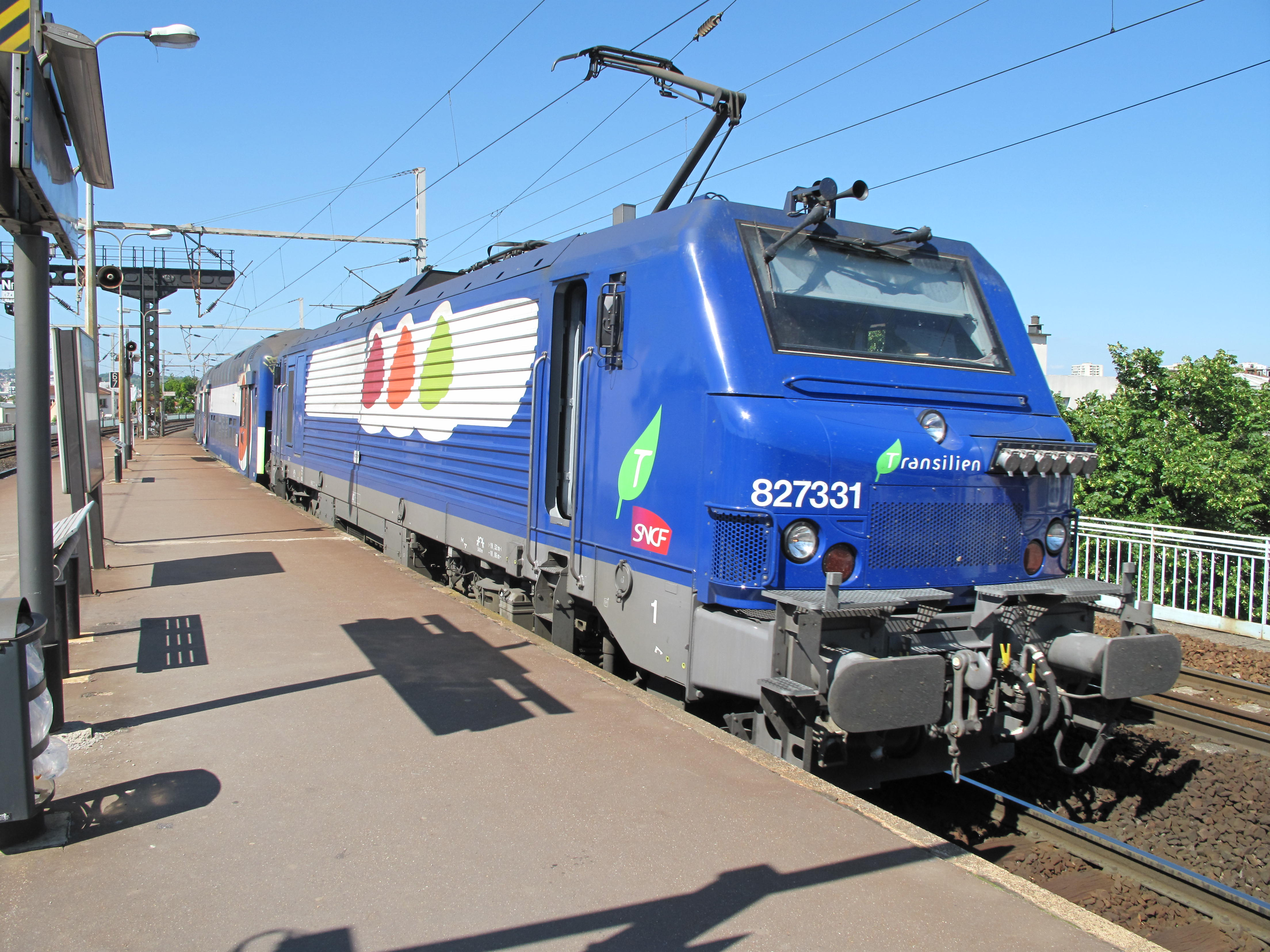 Electric locomotive BB 27300 arriving in the station of Colombes, France